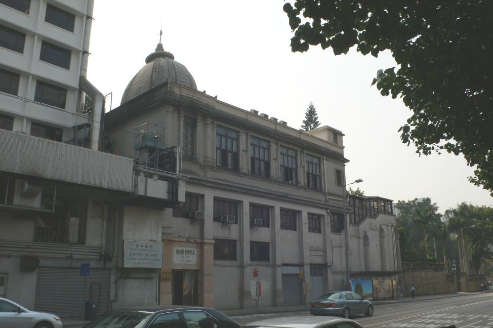 Hundu Temple in Happy Valley, Hong Kong